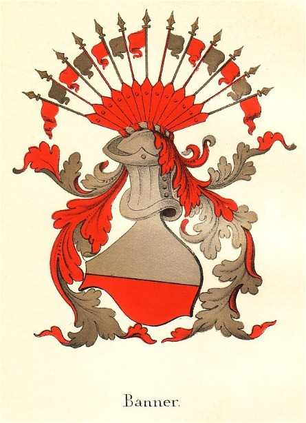 Coat of arms of the Banner family